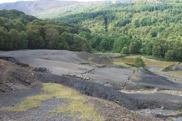 Klondyke Lead Mine Slag Heaps. The slag heap remains of the now disused Klondyke lead mine at grid reference SH 76500 62157.